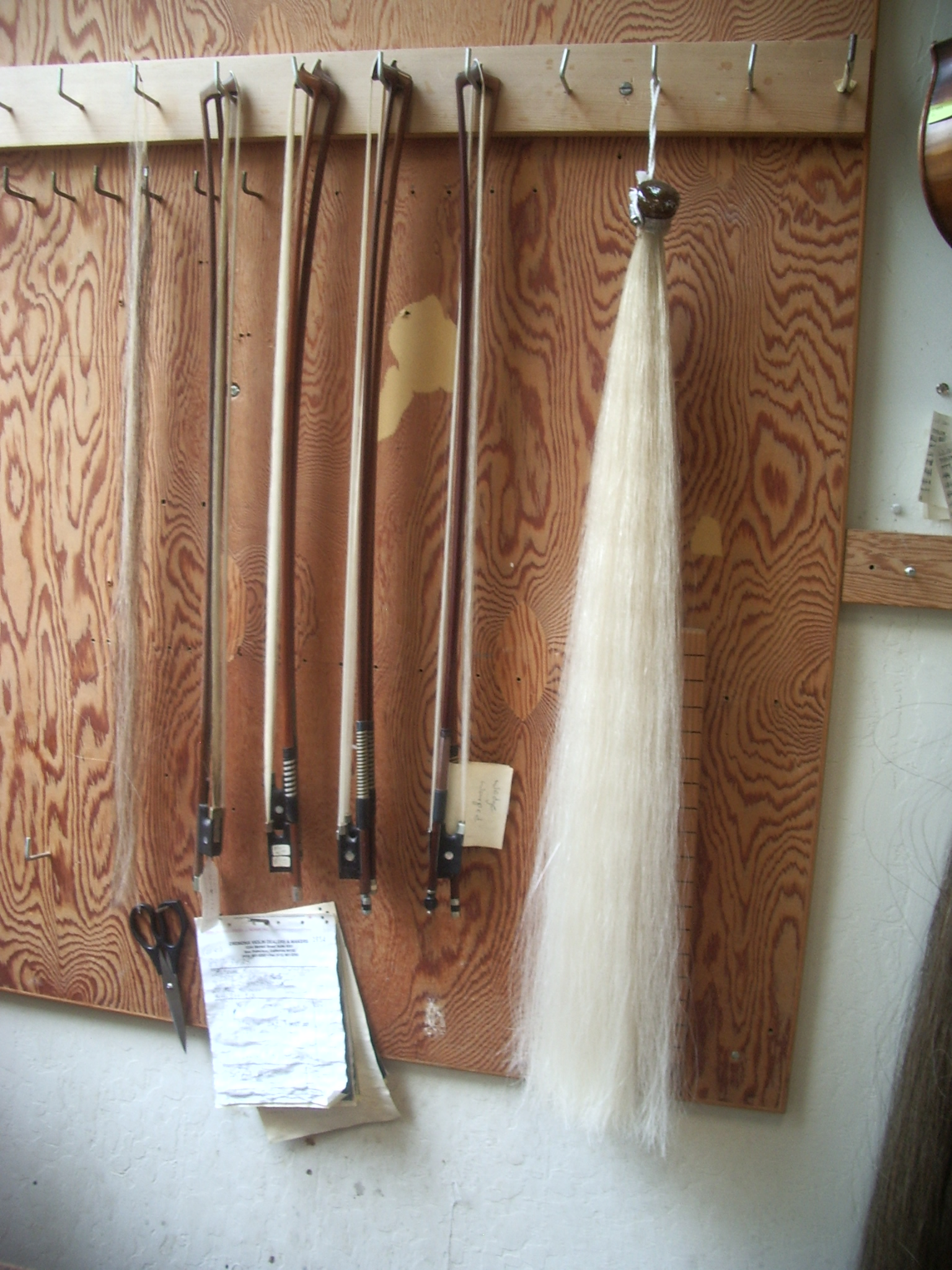 A bow maker workshop in Cremona, Italy : several bows and horsehair.